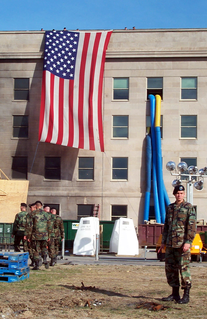 ARLINGTON COUNTY, VIRGINIA - Soldiers prepare to lower the garrison flag that draped the side of the Pentagon beside the impact site where terrorists crashed a hijacked airliner Sept. 11, 2001. The soldiers folded the flag ceremonially Oct. 11 for presentation to Army leadership. It will never be flown again. Photo by Jim Garamone.